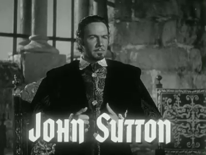 John Sutton in Captain from Castile Henry King 1947